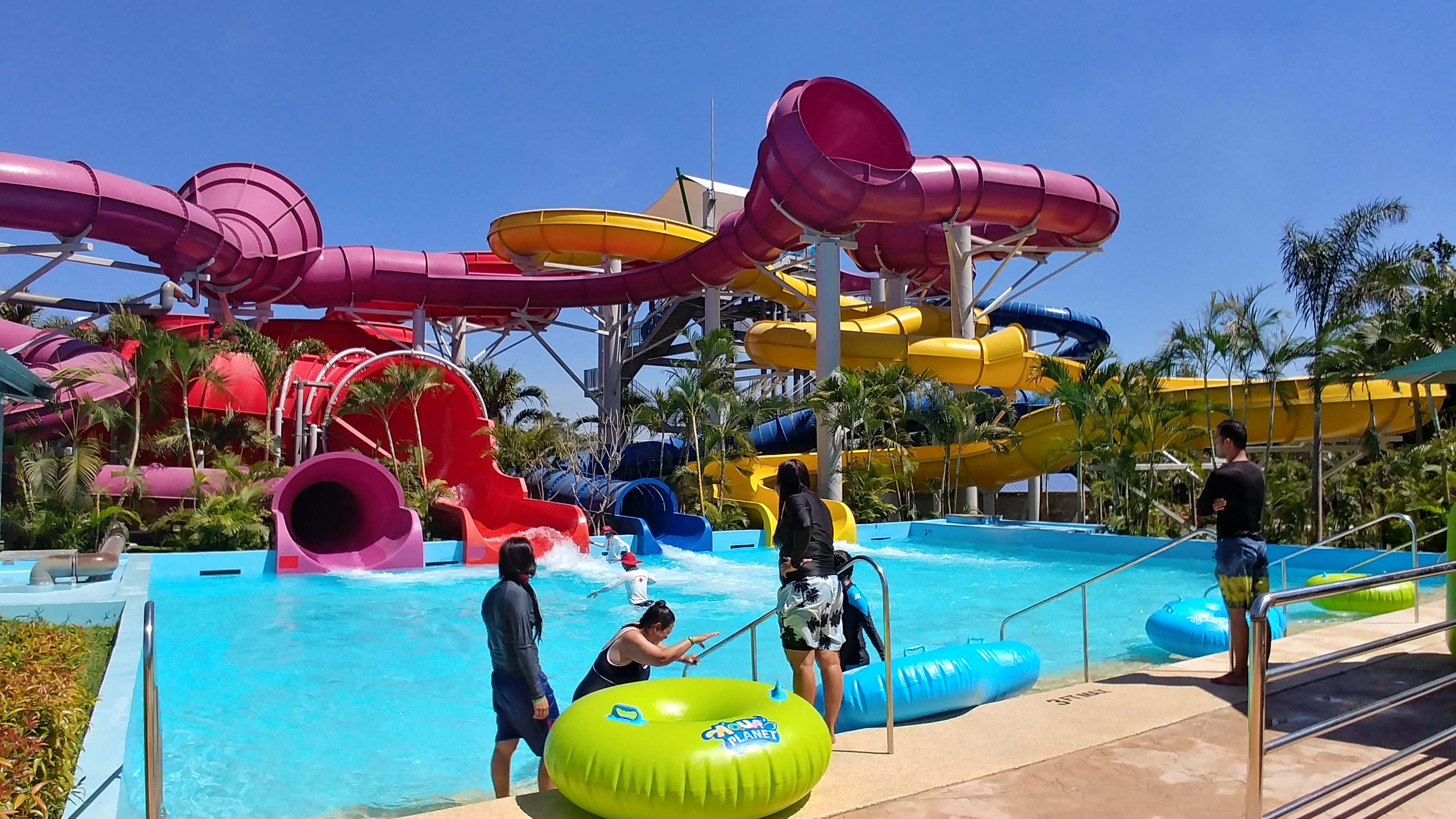 One of the giant water slides inside Aqua Planet, a water park inside Clark Freeport Zone in Mabalacat, Pampanga.